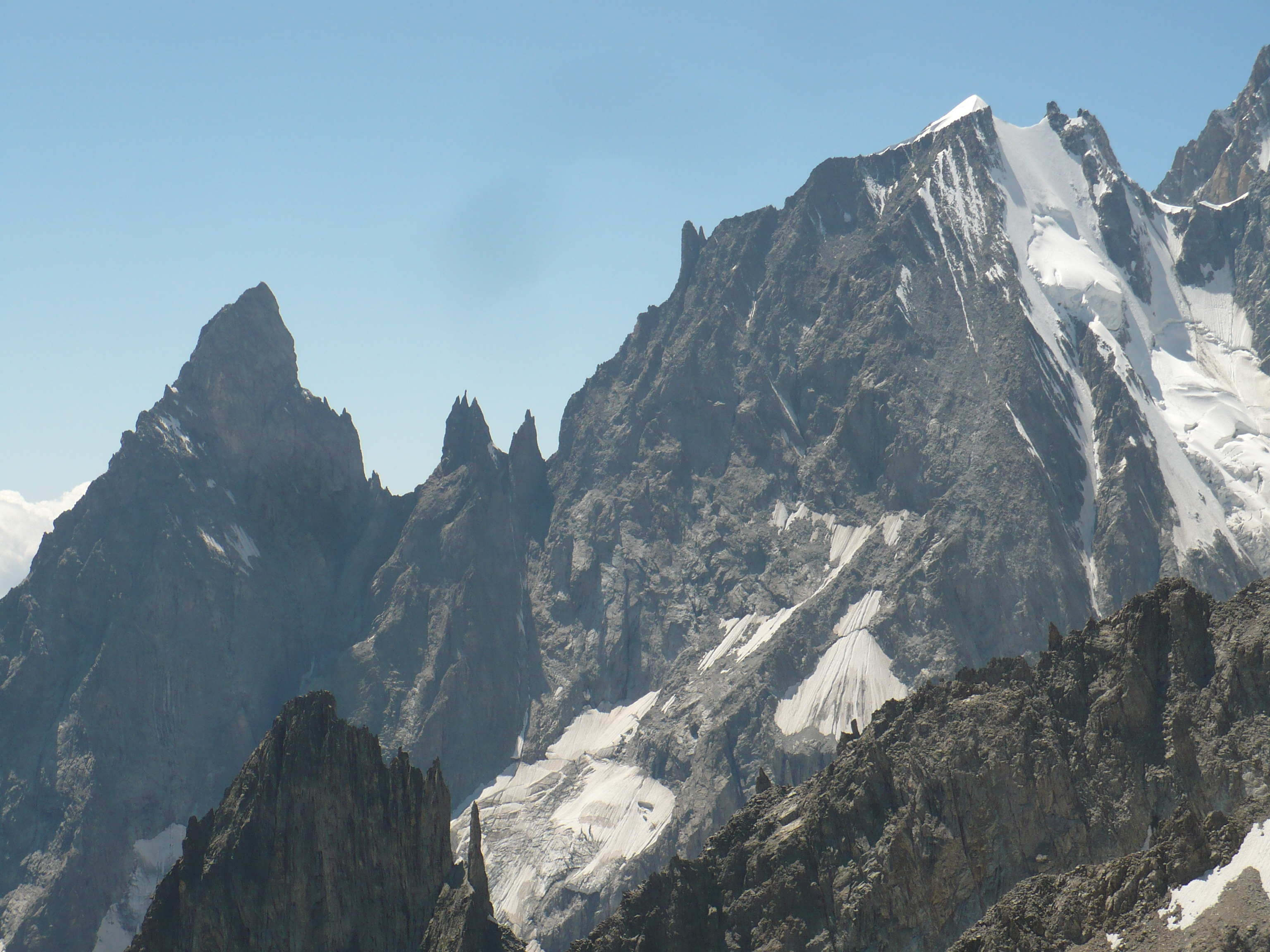 Aiguille Noire de Peuterey (left) - Les Dames Anglaises (centre) - Aiguille Blanche de Peuterey (right) - - Mont Blanc massif - Graian Alps